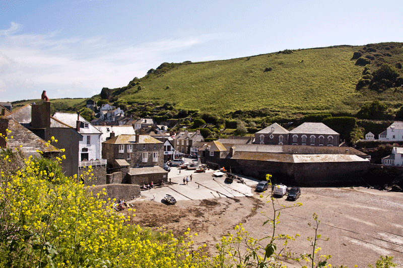 Port Isaac - port, Cornwall, England